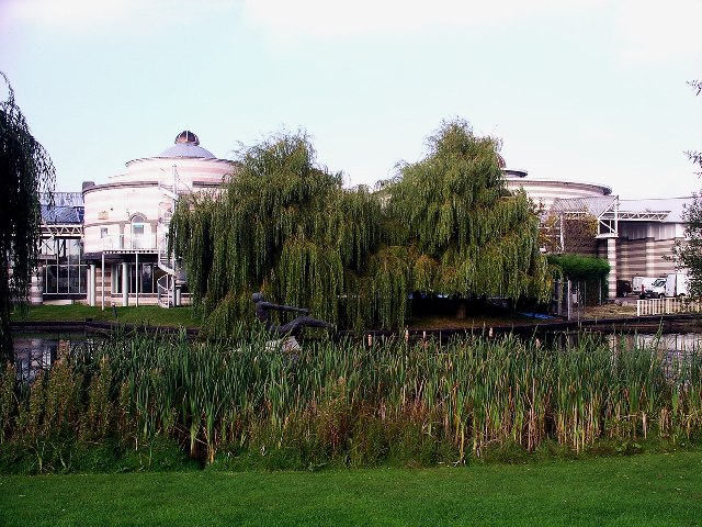 The Dome Leisure Centre, Doncaster. Modern leisure centre with all the usual facilities, plus lake with wildlife & pleasant grounds. It is also a venue for conferences, exhibitions and concerts.